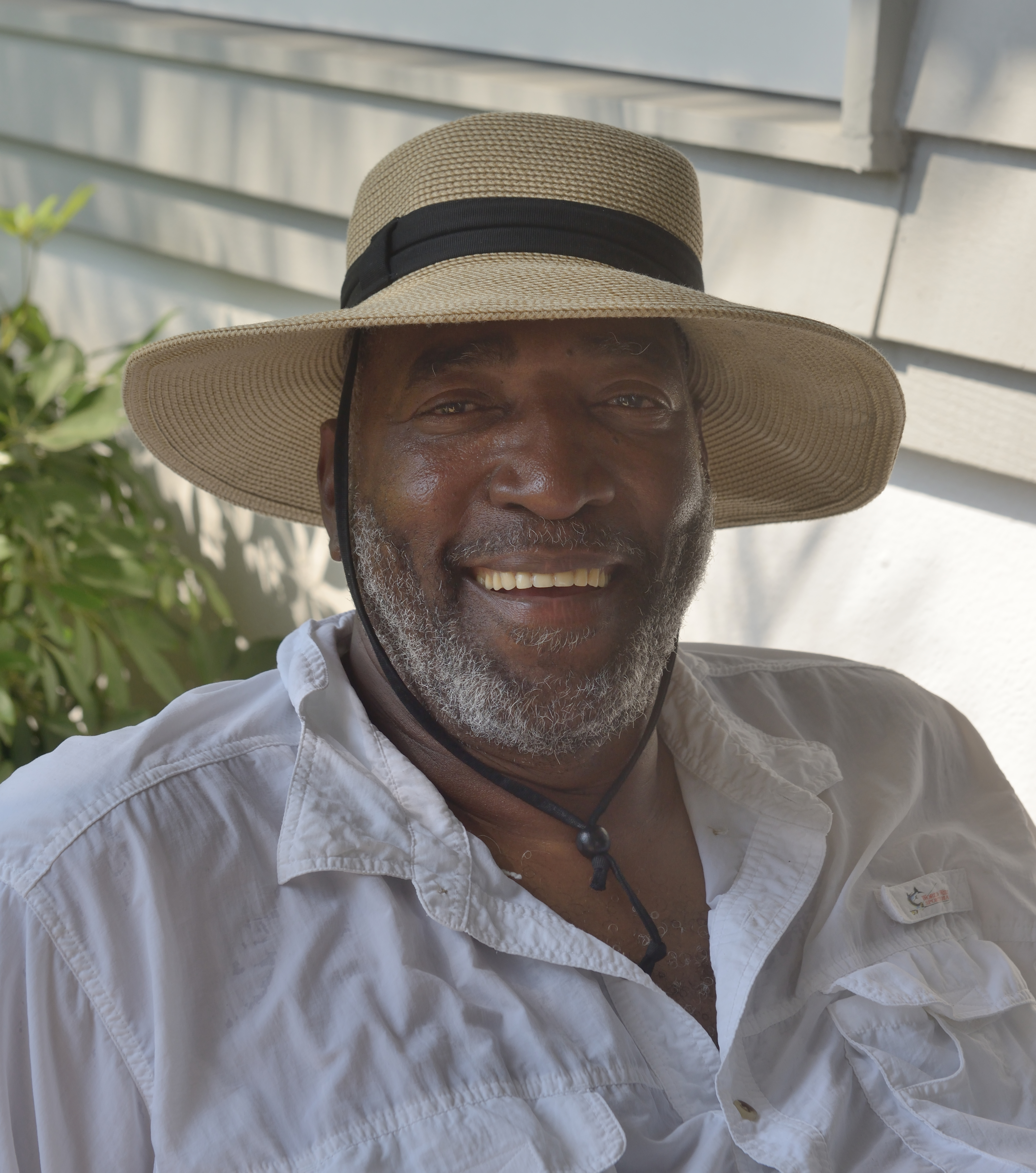 Clifford Ray American basketball coach and former professional basketball player in Florida.